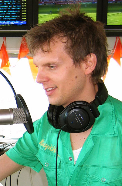 Dutch radio host Rinse Blanksma